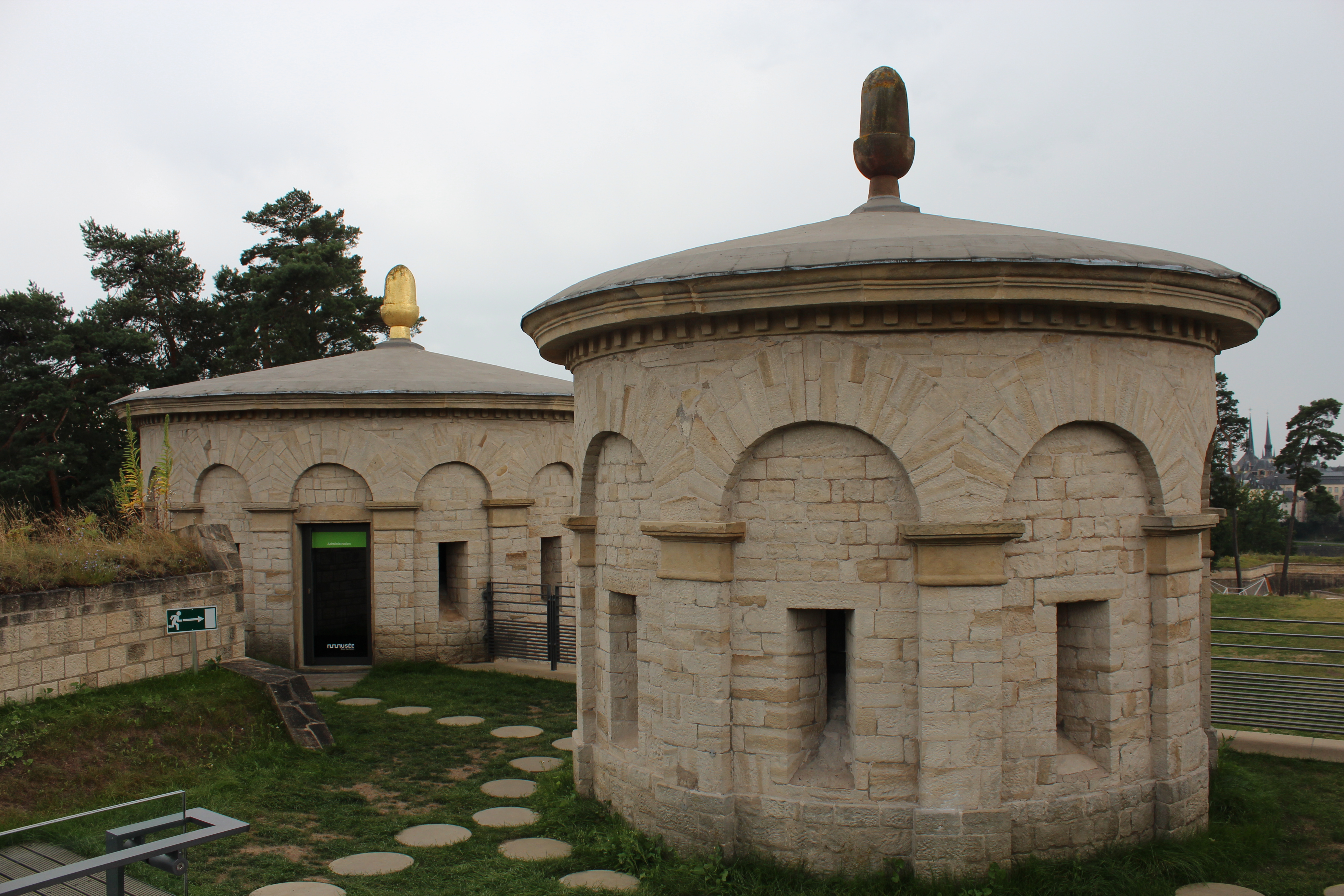 Rooftop view of Fort Thüngen, hosting Musée Dräi Eechelen in Kirchberg, Luxembourg City